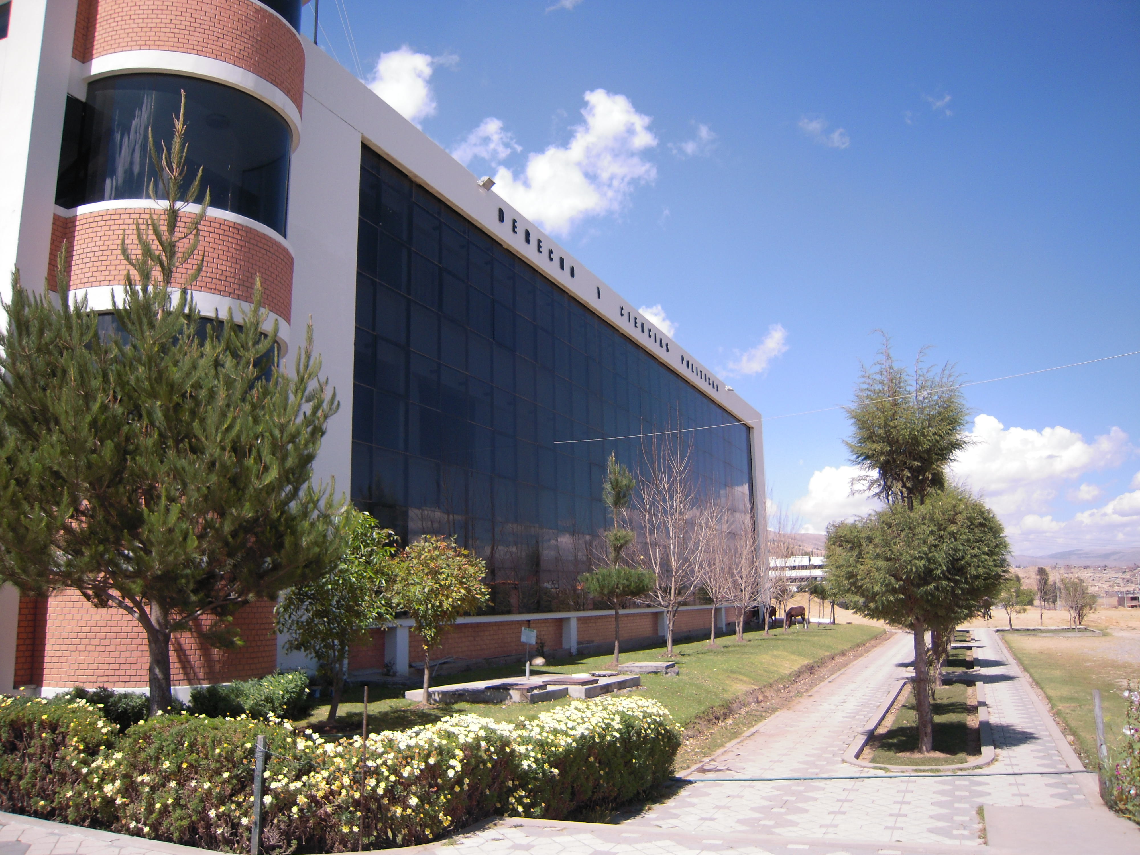 Faculty of Law - Los Andes Peruvian University - UPLA